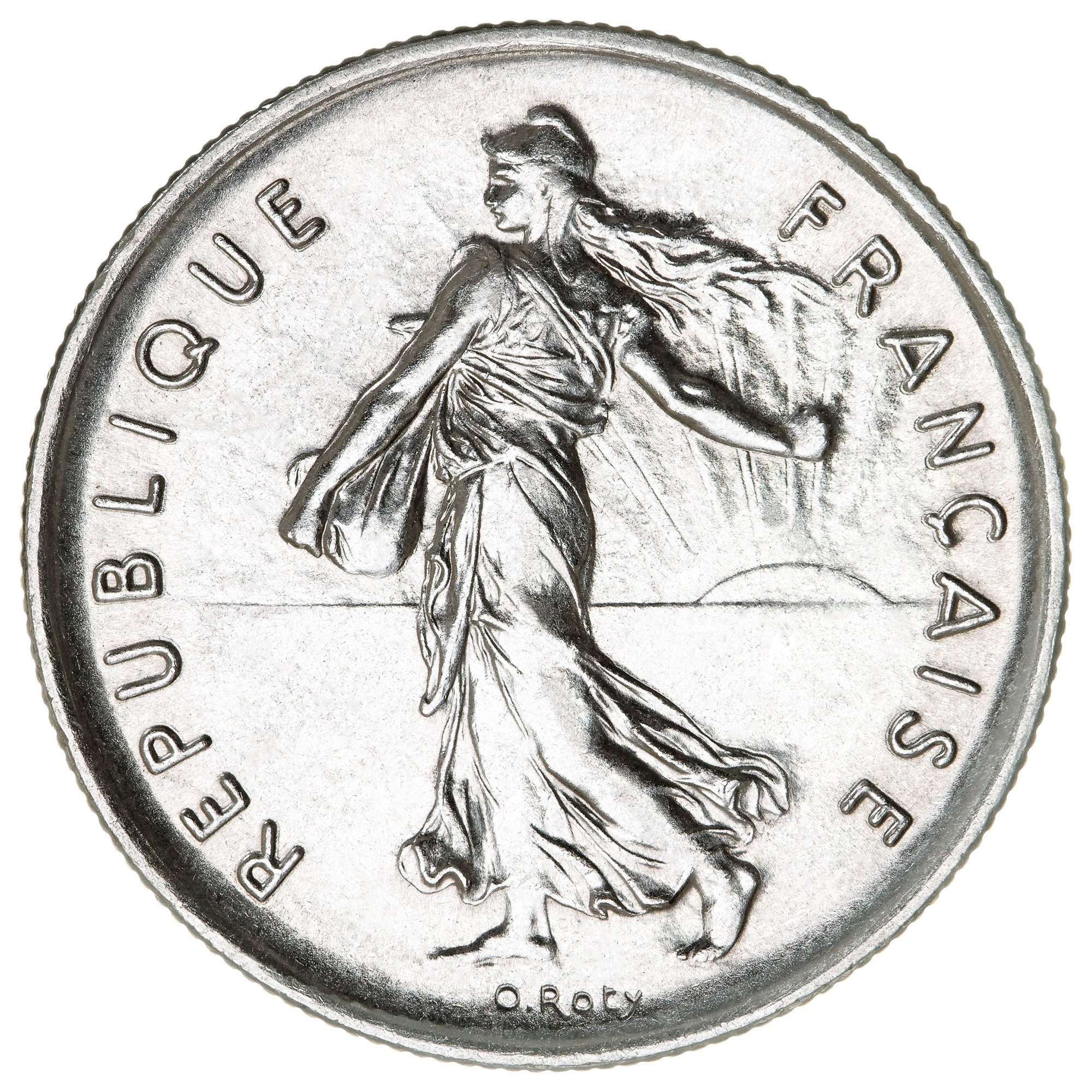 Obverse of the 5 French francs nickel coin, 1970 (F.341/2). Nickel, diameter 29 mm, 10 g.